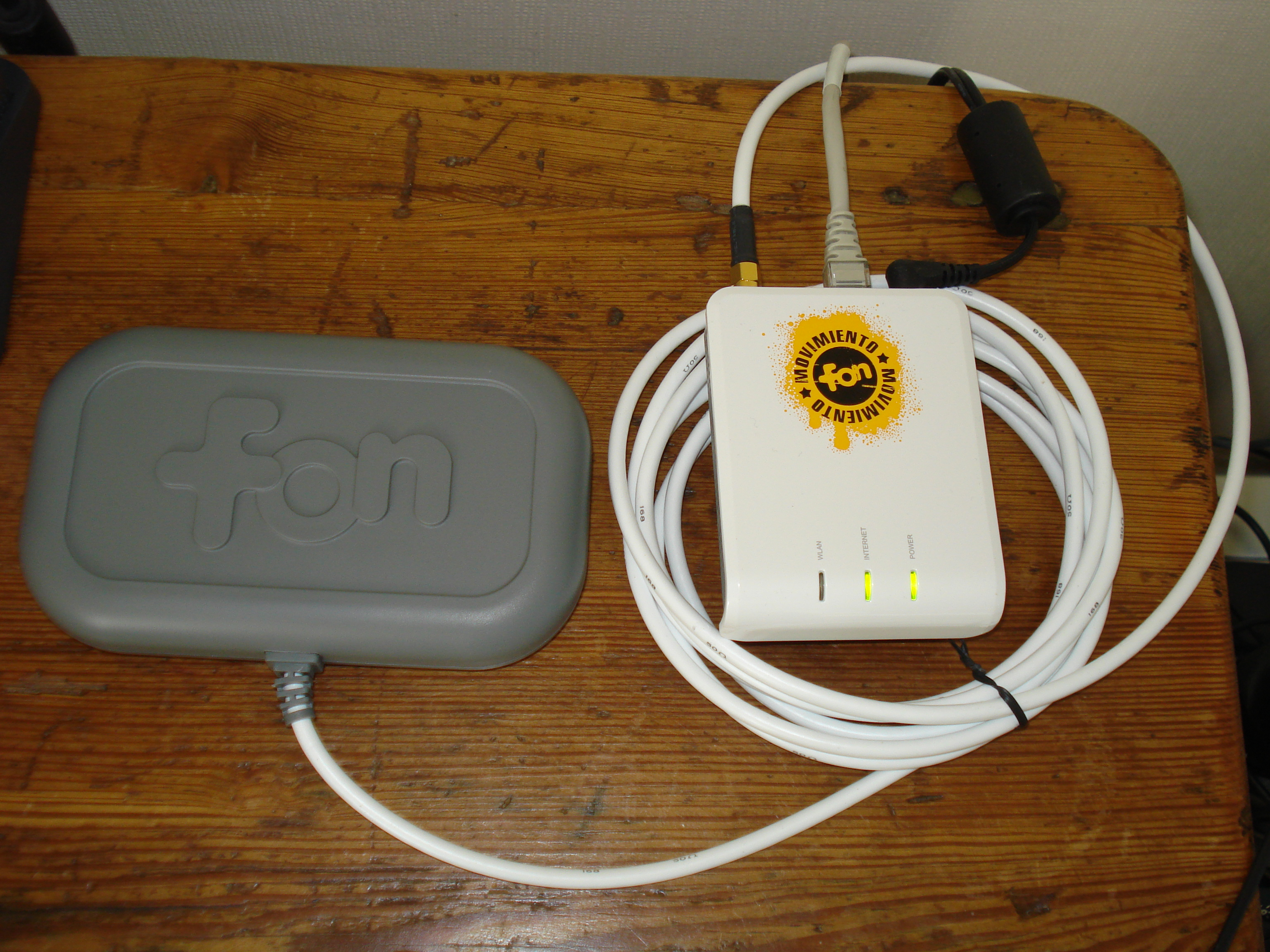 Picture of a La Fontenna and a La Fonera